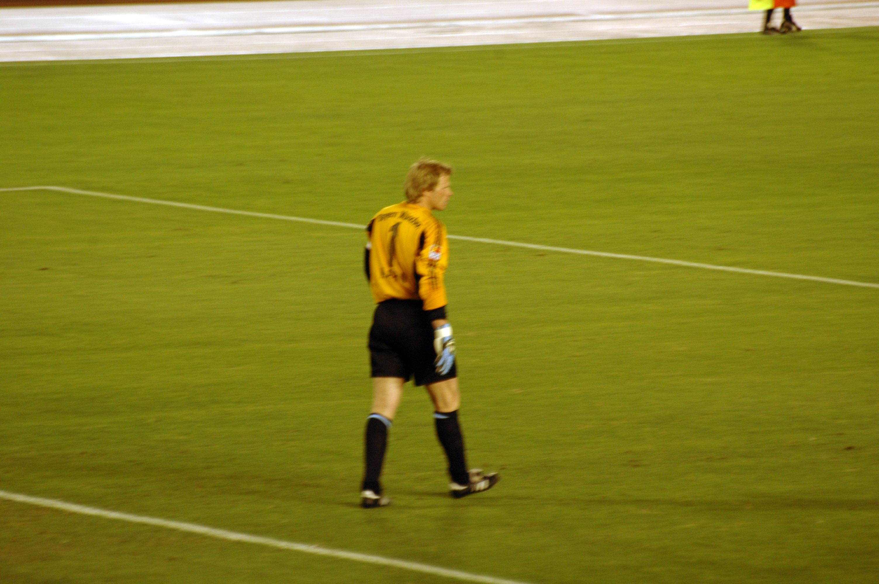 Oliver Kahn , Bayern Munich goalkeeper